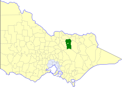 Location of the Shire of Benalla within Victoria.